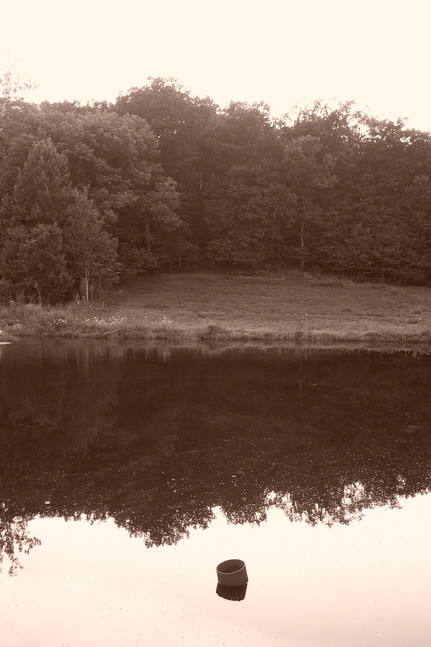 Hansbrough's Ridge, site of the 1863-64 Union Winter Encampment.